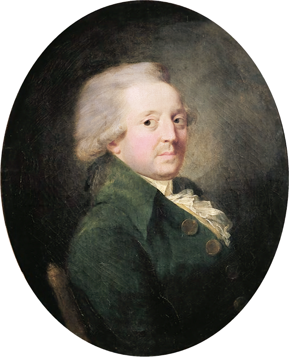 Portrait of Jean-Antoine-Nicolas de Caritat de Condorcet (1743-1794)